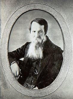 Carlos Maria Isidro de Borbon, better known as the Carlist claimant to the Spanish throne, Carlos V. Photo taken in 1853, most likely in Vienna, and preserved in personal archive of his grandson, Alfonso Carlos de Borbon (also Carlist claimant to the Spanish throne).